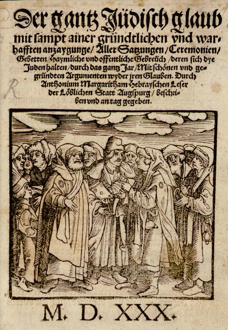 Der ganze jüdische Glaube mitsamt einer gründlichen und wahrhaftigen ..., 1541, by Antonius Margaritha (1492-1542)